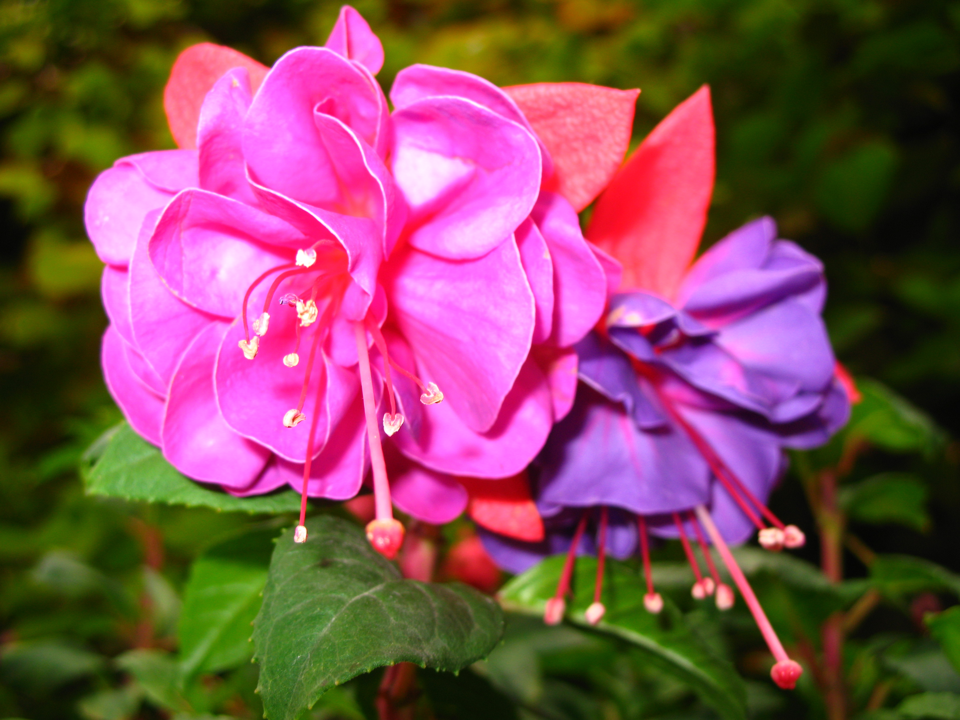 Fuchsia at the Mirabell Garden, Salzburg, Austria